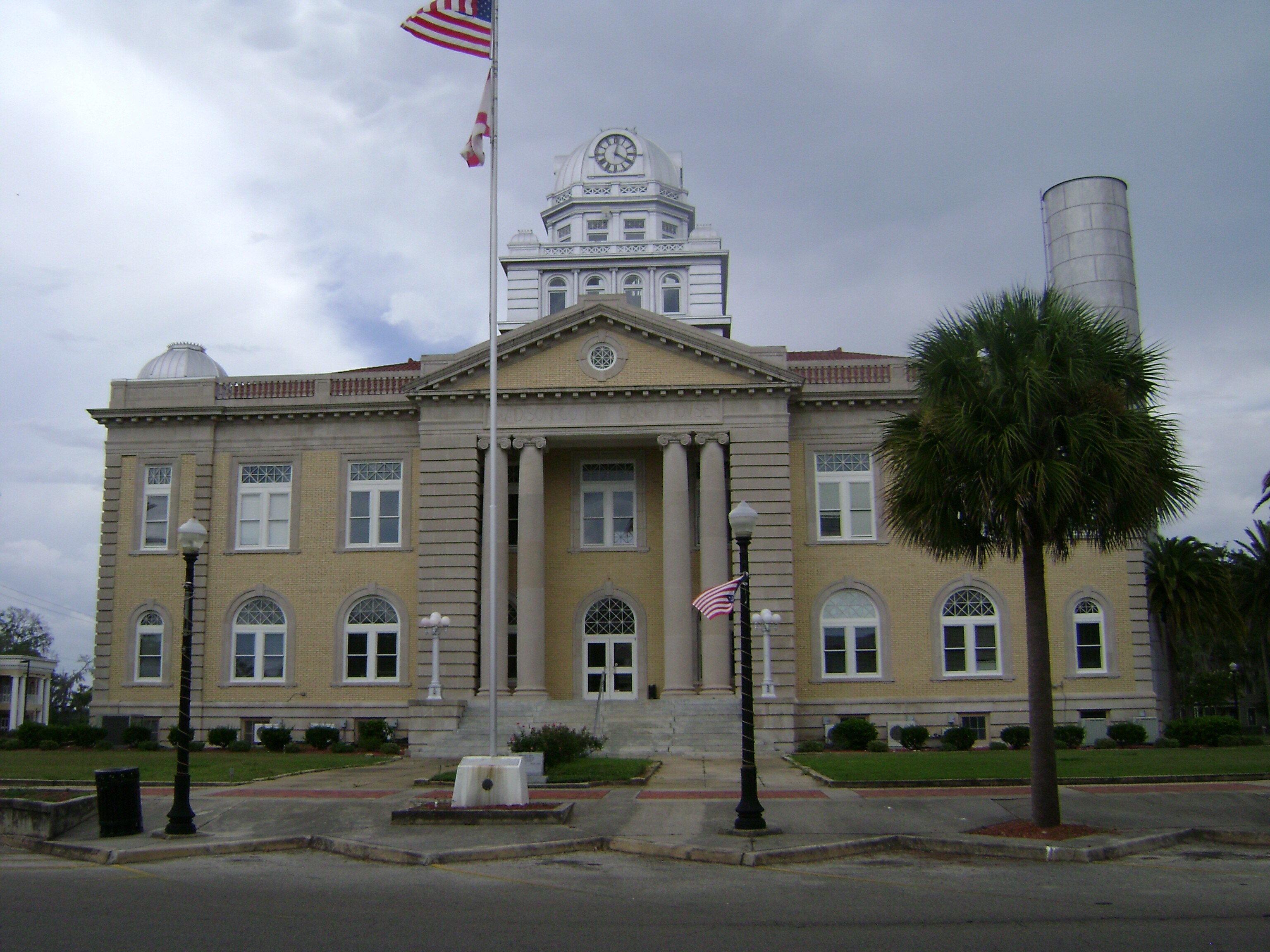 Madison County Courthouse (westside) in Madison, Madison County, Florida